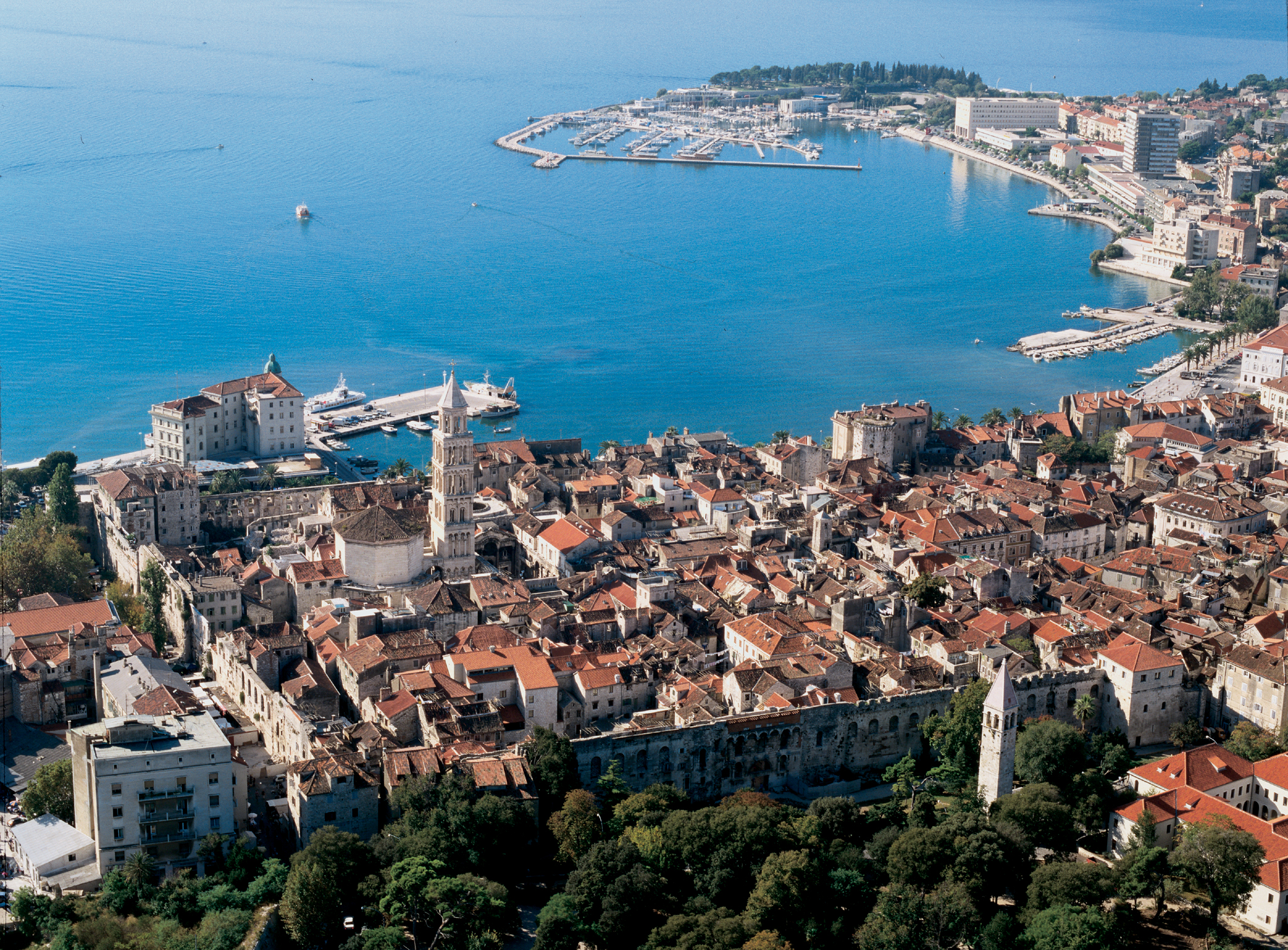 Split: An aerial view on city harbor, Diocletian's Palace and part of city core (from North)